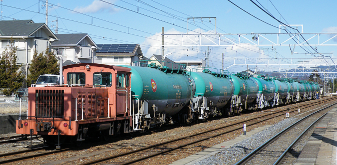 Oil freight train coached by Kyosan's 20t switcher at Murai Sta., Japan.